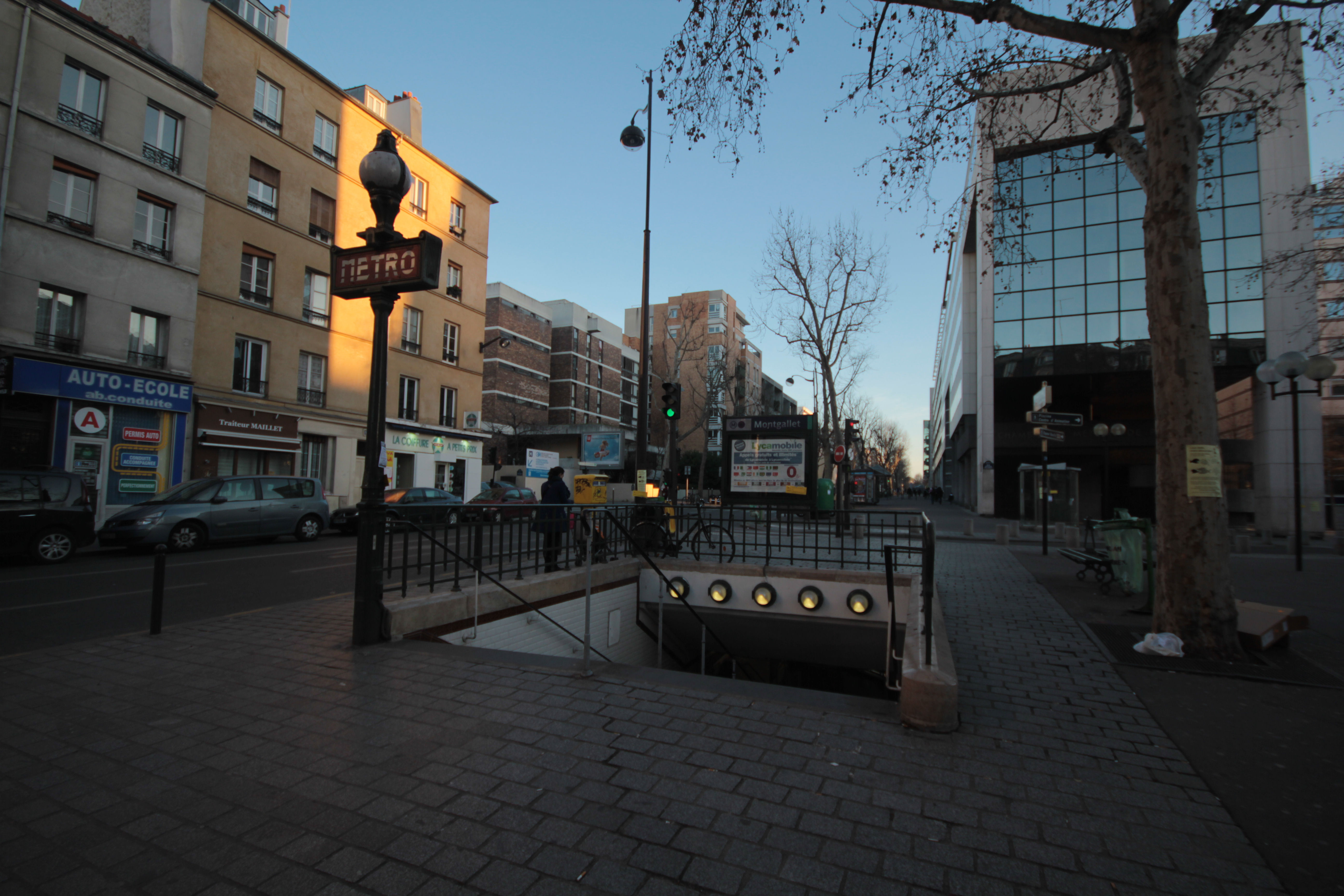 Metro station Montgallet with candélabre Dervaux on Parisian metro line 8